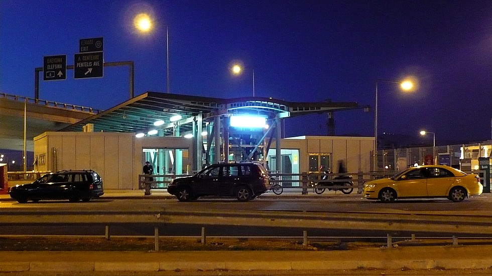 The picture depicts the Proastiakos Station of Doukissis Plakentias at Chalandri/Athens/Greece.